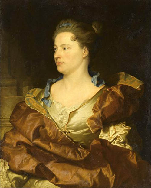 Portrait of Élisabeth Le Gouy